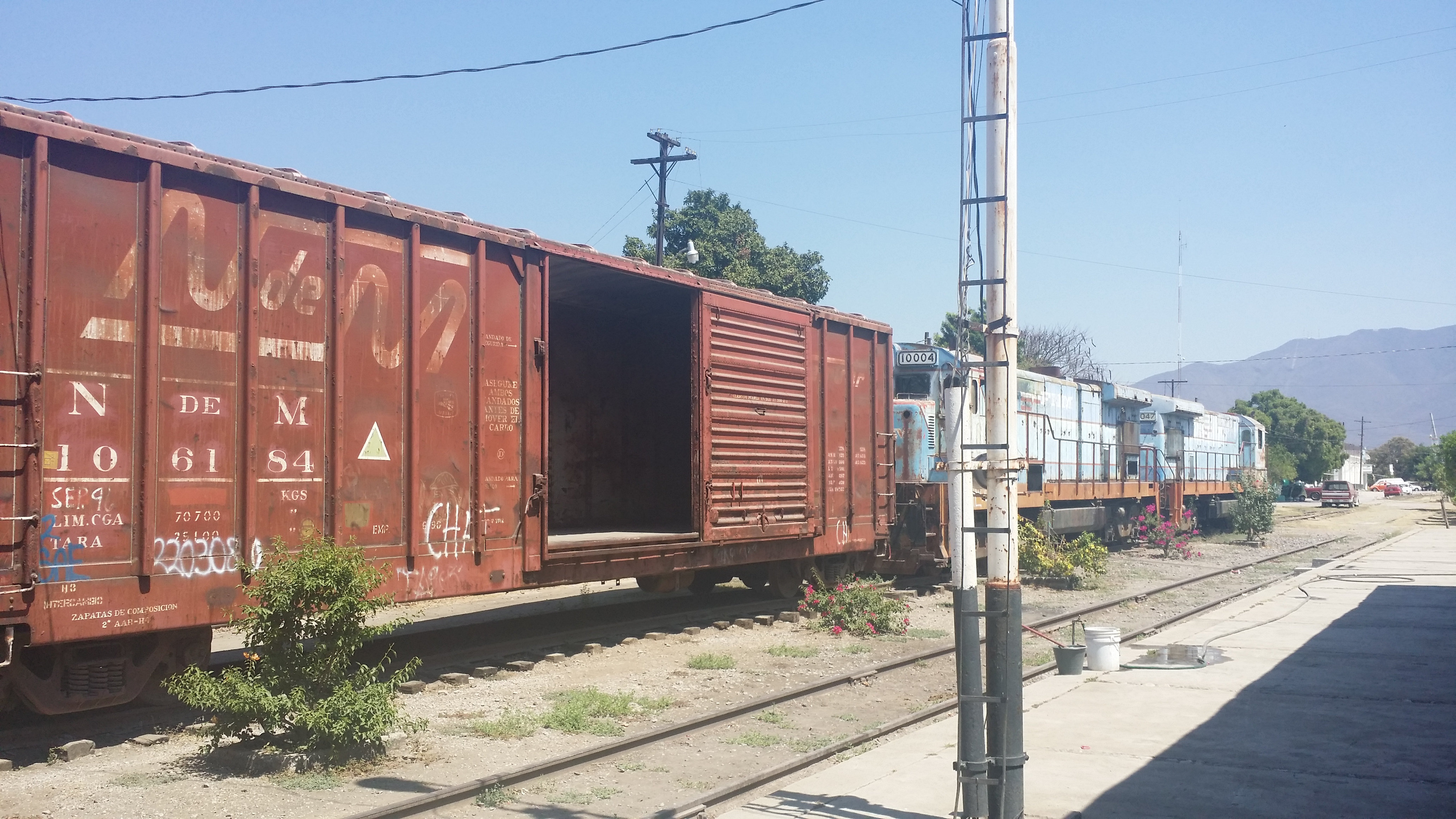 An old railway station in Iguala de la Independencia, Guerrero, Mexico.